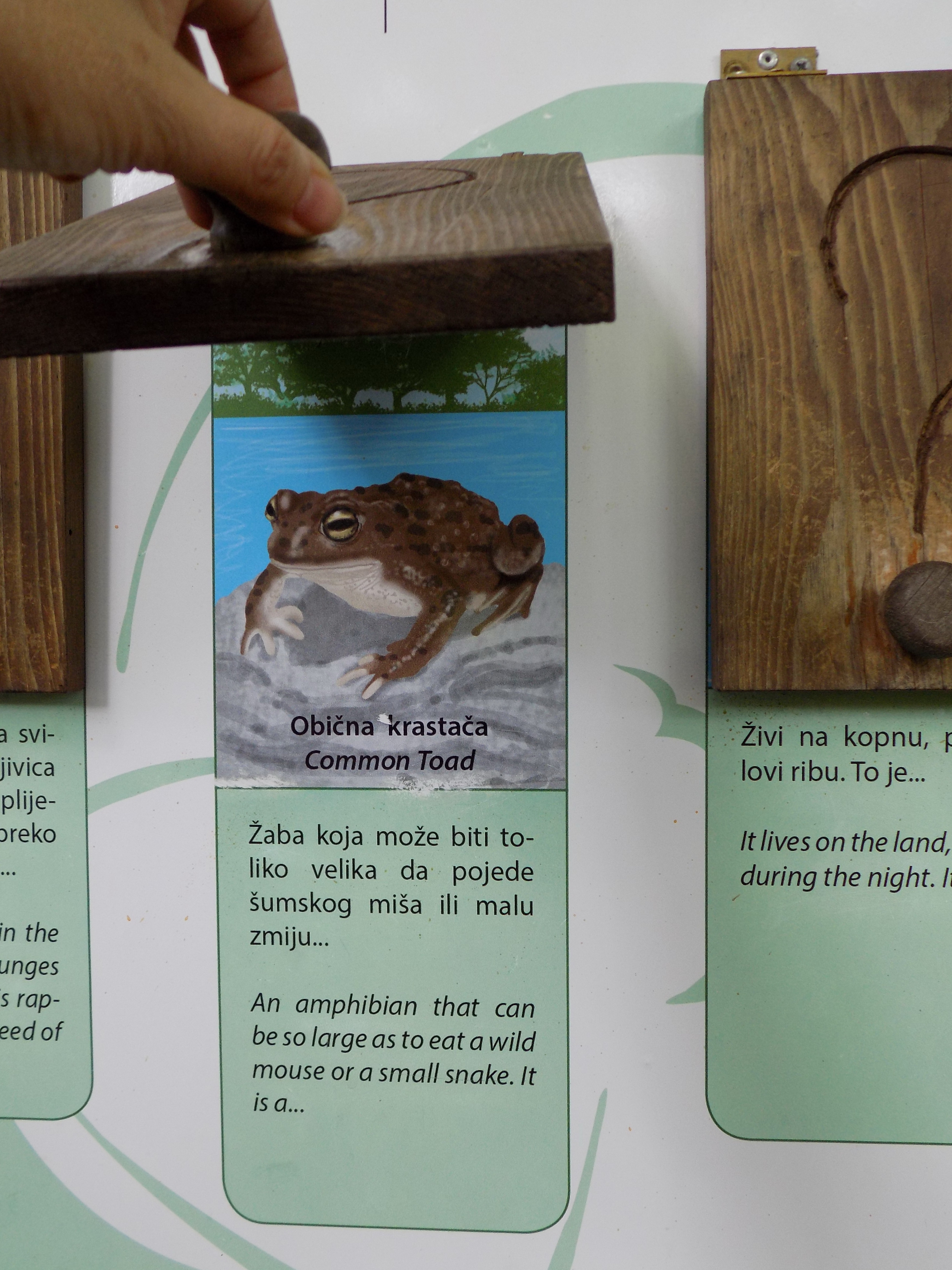 Biogradska Gora National park, the oldest protected natural resource in Montenegro